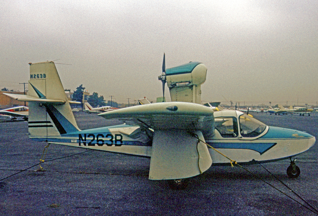 Colonial C-1 Skimmer number 23 N263B at Teterboro NJ in 1970